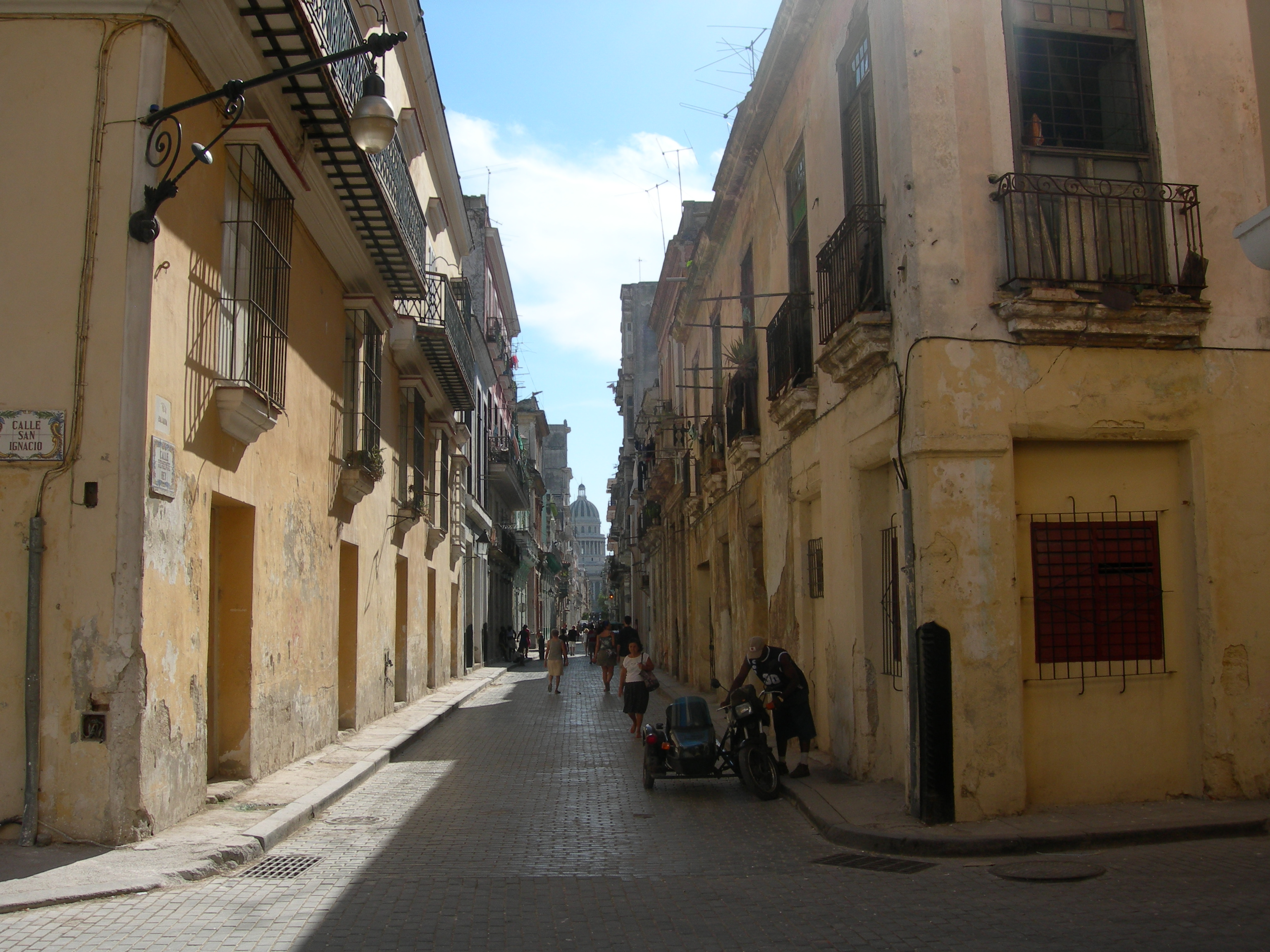 The Capitol in Havana, Cuba, seen from the Calle San Ignacio